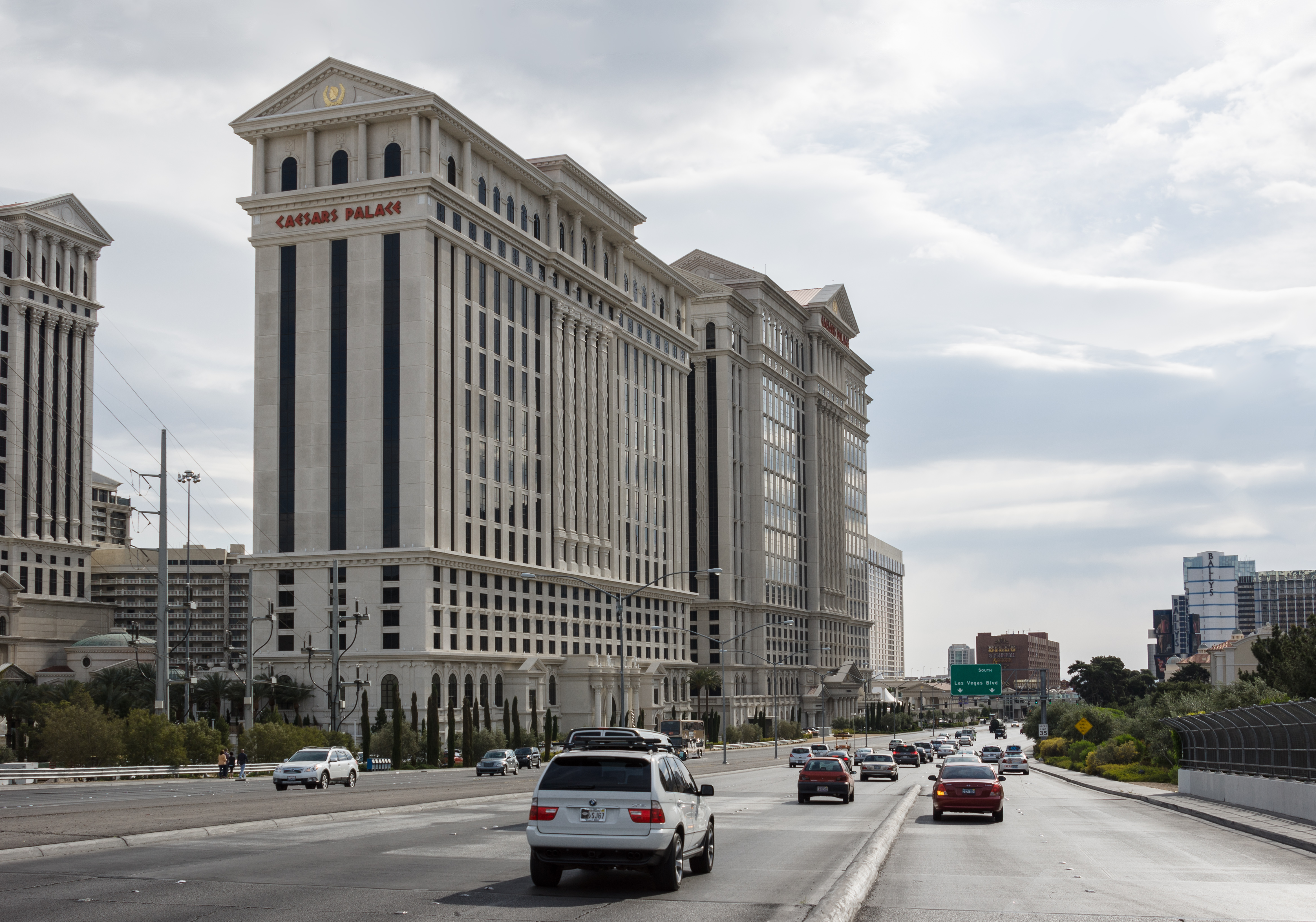 Flamingo Road passes the Caesars Palace hotel/casino in Las Vegas, Nevada, USA